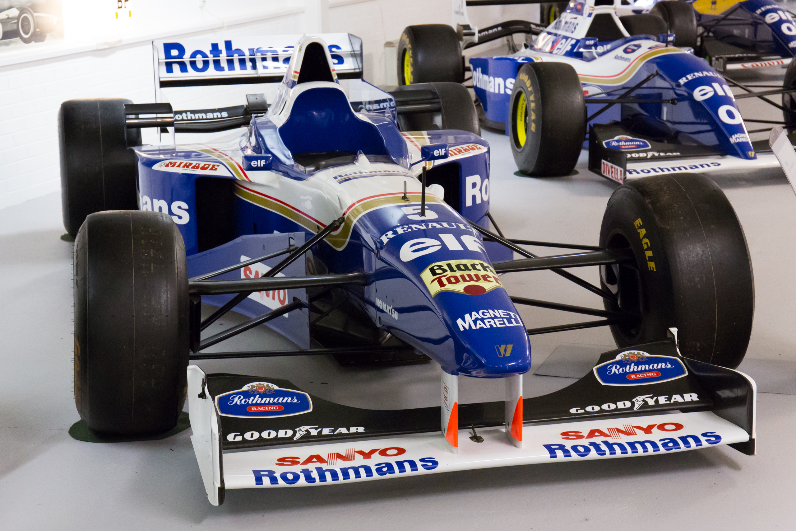 1996 Williams FW18 (#5 Damon Hill)